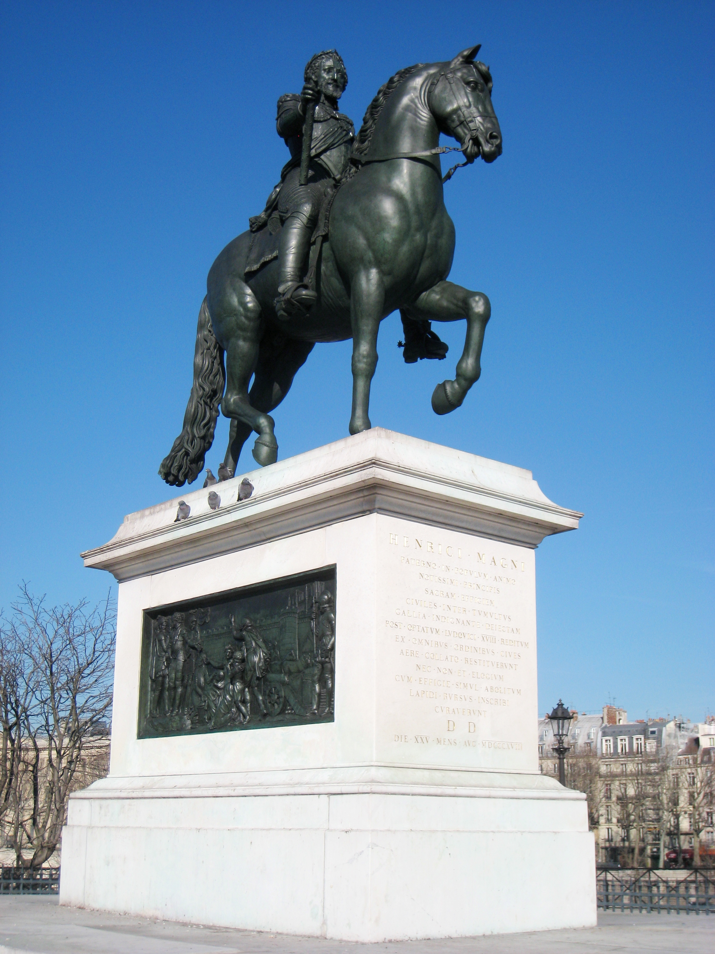 Statue of Henri IV by François-Frédéric Lemot - Pont Neuf, Paris, France. This statue is old enough so that copyright (if any) has long since expired.